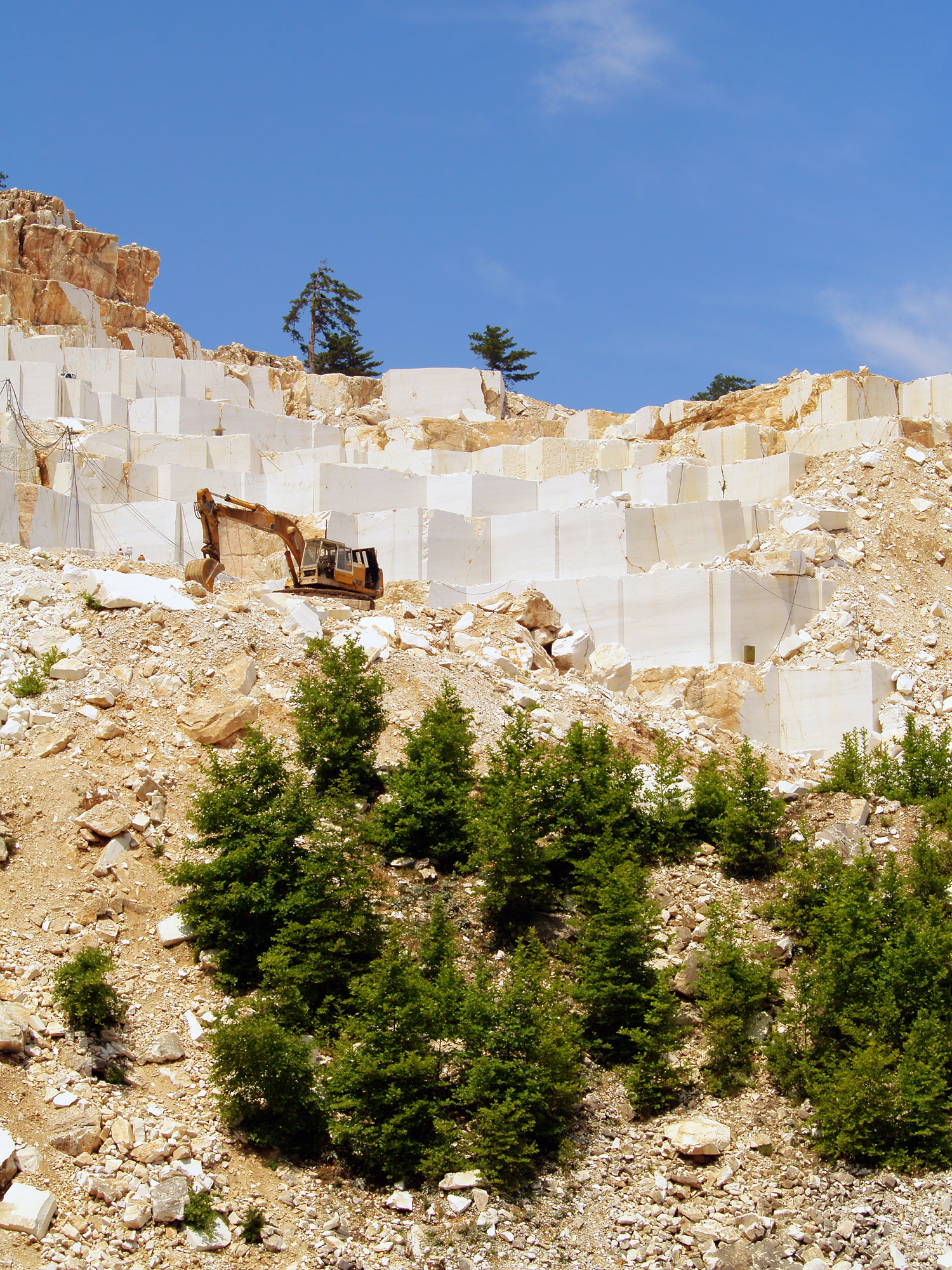 Marble stone pit on Thasos, Greece